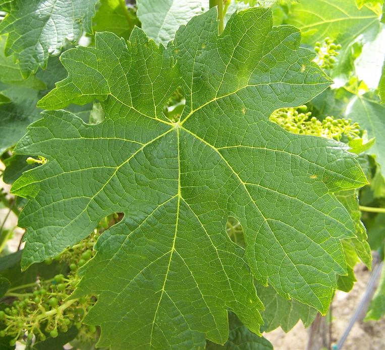 Merlot leaf from Hedges vineyard in the Red Mountain AVA. Taken on Sunday, June 10th 2007 with a kodak z650